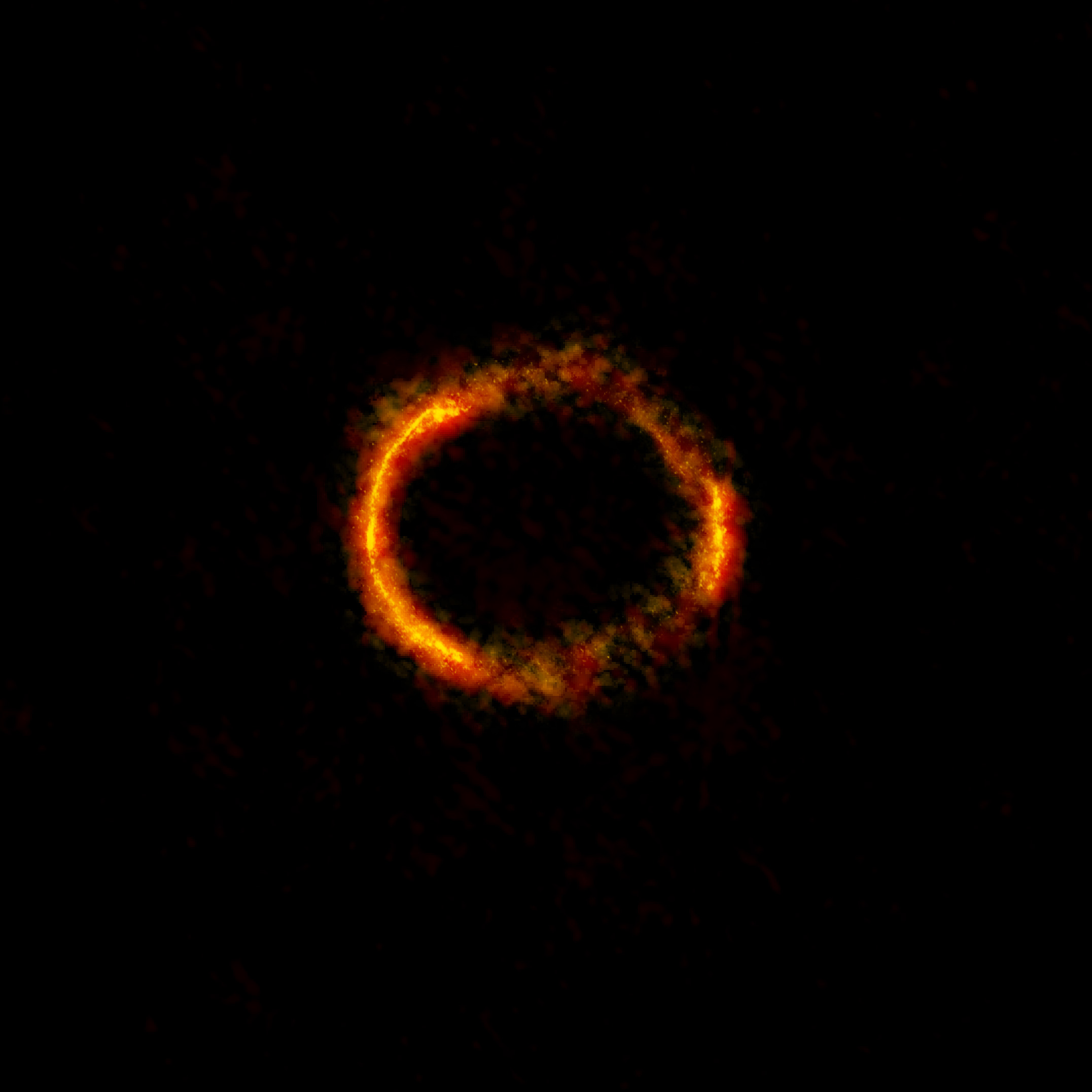 The bright orange central region of the ring (ALMA's highest-resolution observation ever) reveals the glowing dust in this distant galaxy. The surrounding lower-resolution portions of the ring trace the millimetre-wavelength light emitted by carbon dioxide and water molecules.